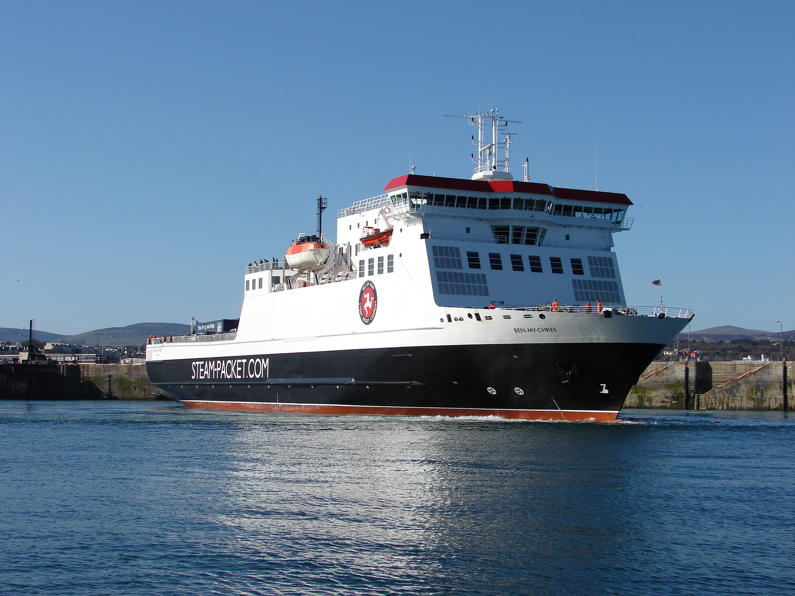 MS Ben-my-Chree in Douglas Harbour.